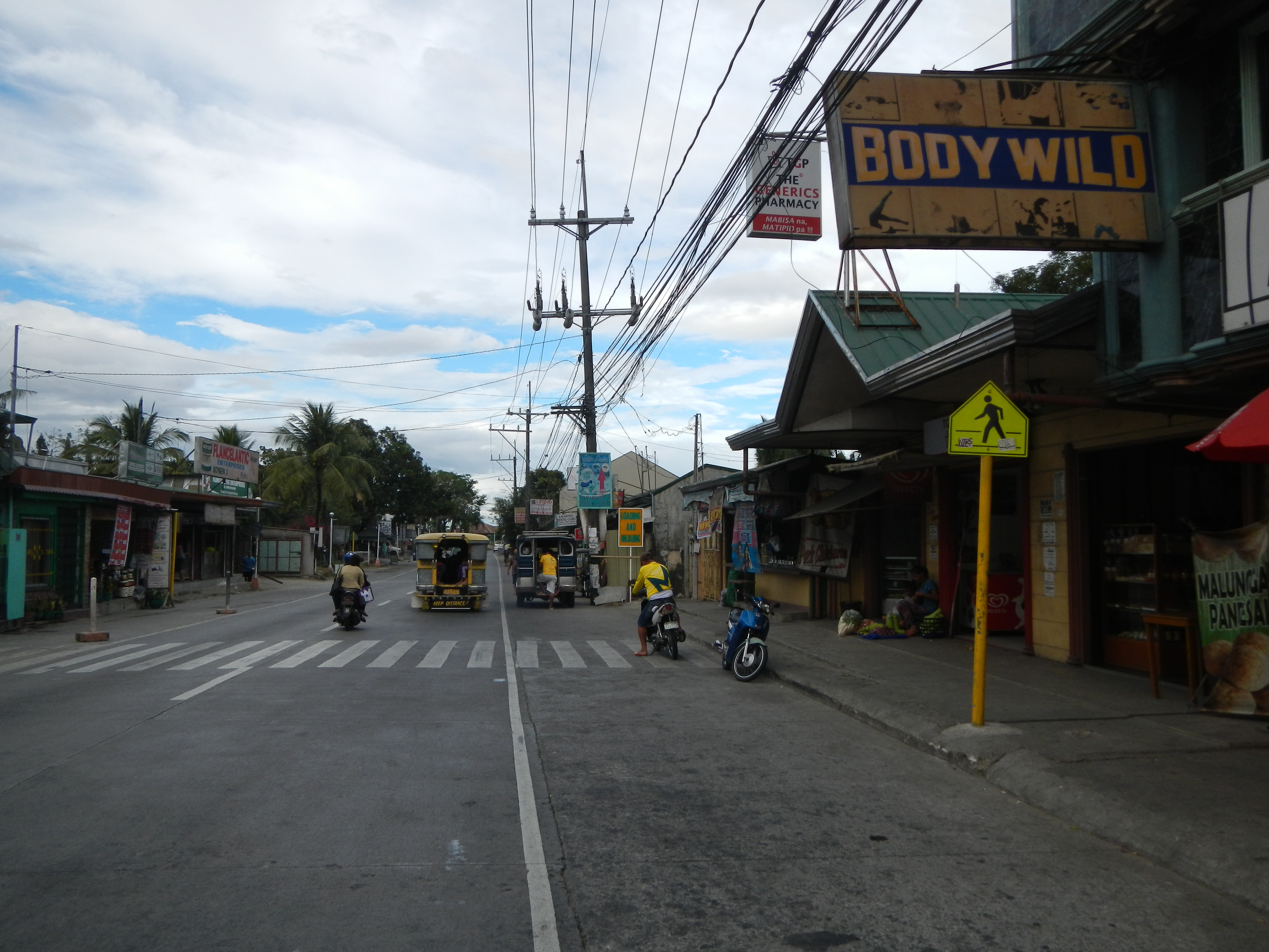 Caypombo, Bulacan[1]